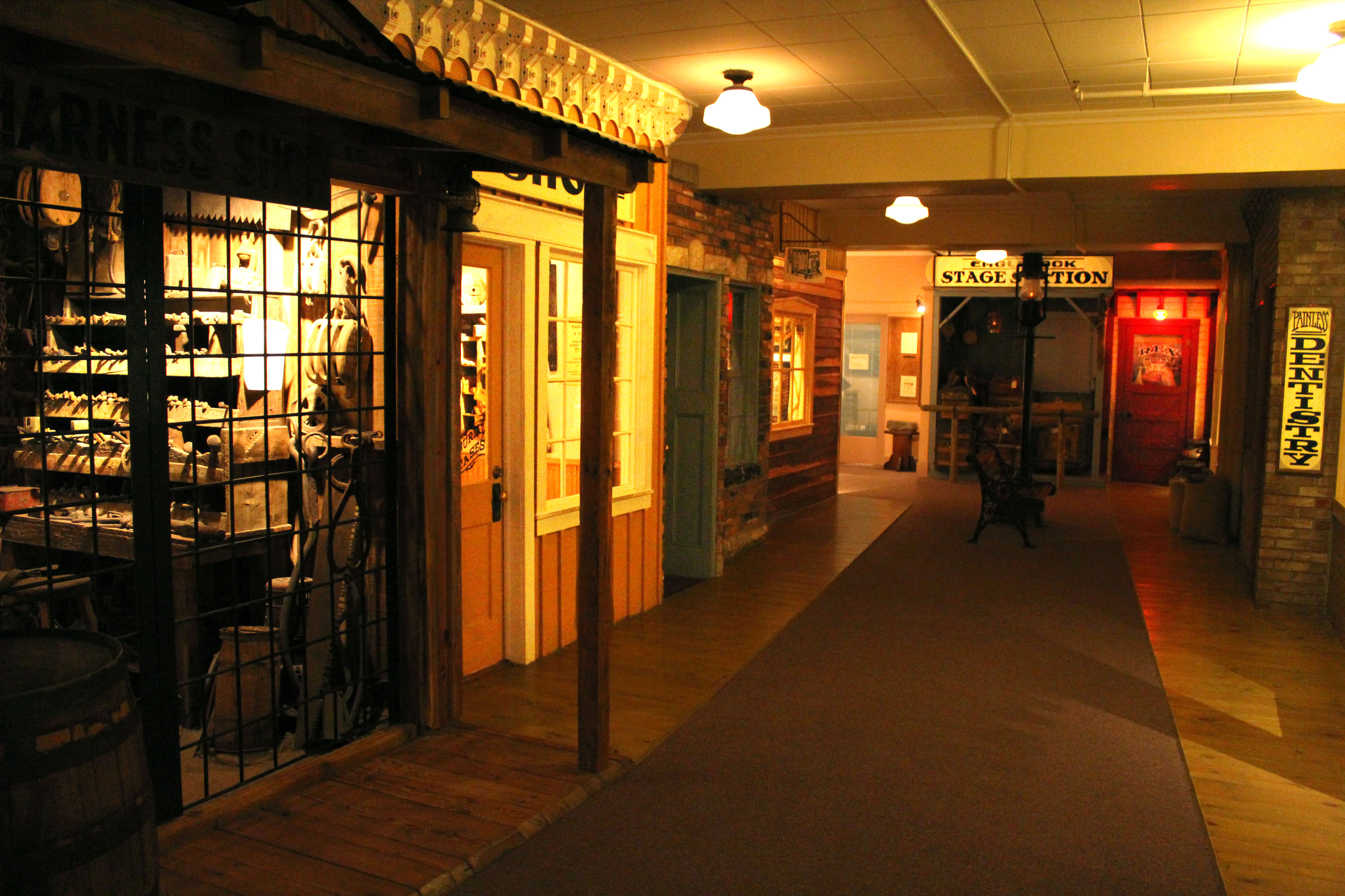 Walkthrough exhibit at the Museum of Idaho in Idaho Falls showing Eagle Rock, USA -- a model of ten businesses as they would have looked in the late 19th century, before Eagle Rock became Idaho Falls.